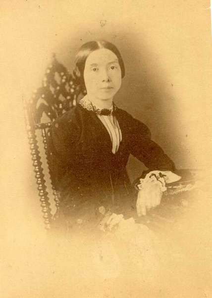 A cabinet card copy of a daguerreotype of Emily Dickinson (unauthenticated) According to Dickinson scholar George Gleason, "the experts agree that Gura’s mere belief, unsupported by any evidence, that the sitter in his photograph looks like the young Emily Dickinson is not sufficient to establish identity." (Gleason, George. "Is It Really Emily Dickinson?" The Emily Dickinson Journal Volume 18, Number 2, Fall 2009, p. 20.)